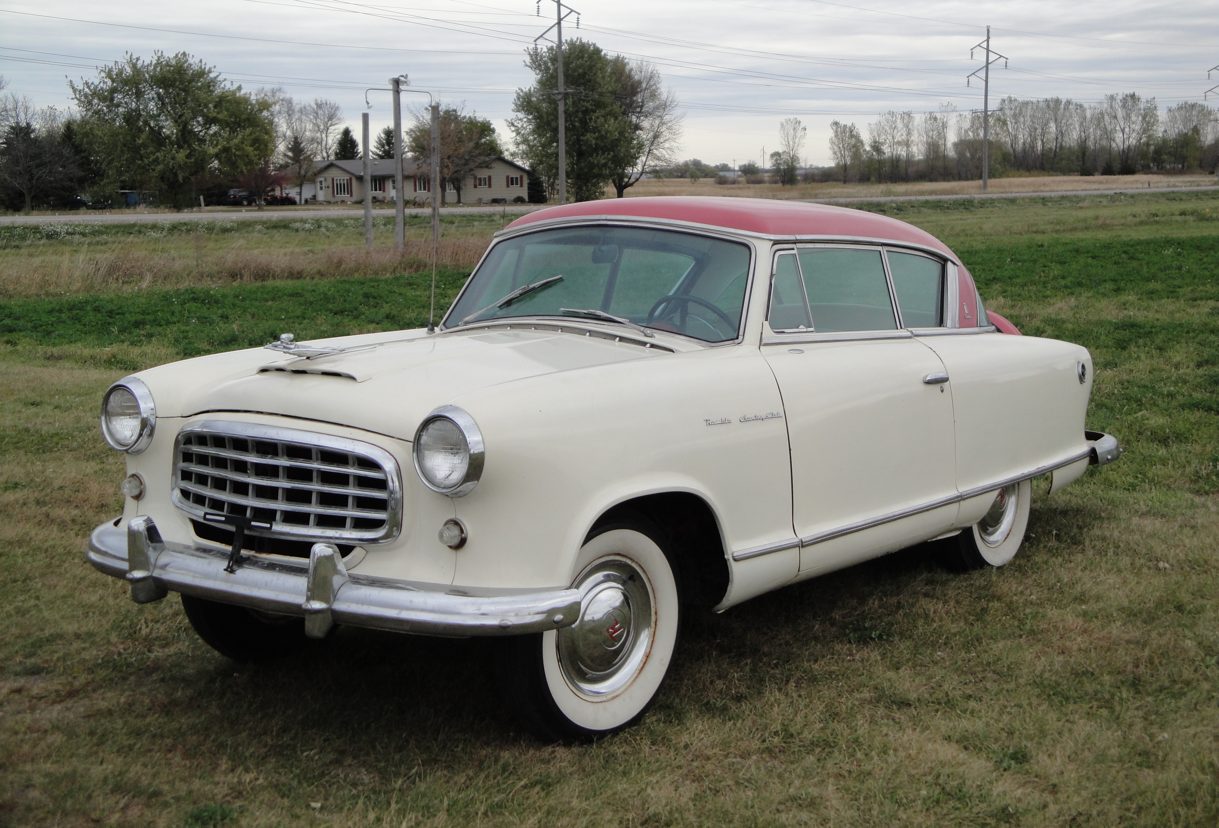 55 Rambler Country Club